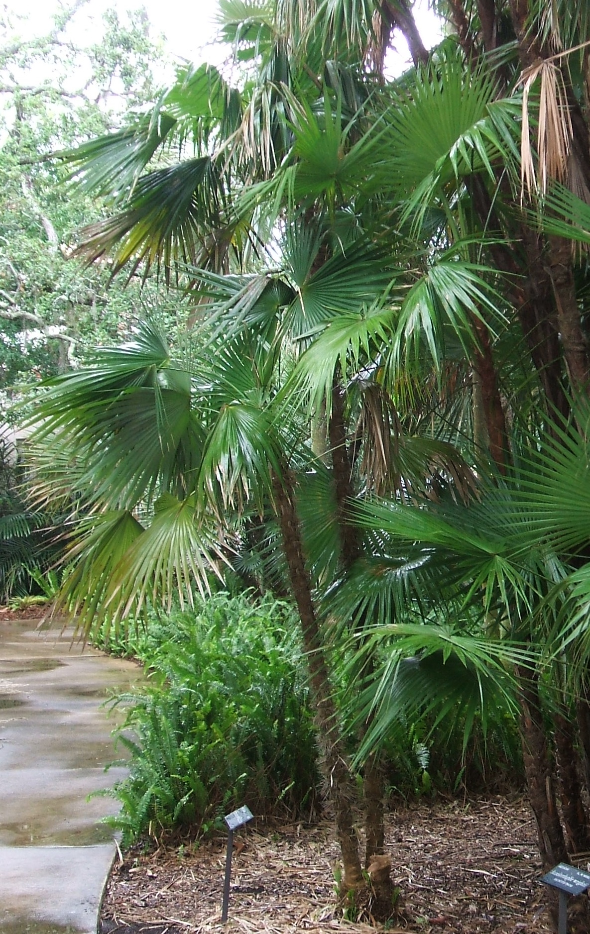 Zombia antillarum at Marie Selby Botanical Gardens, Sarasota, Florida, USA